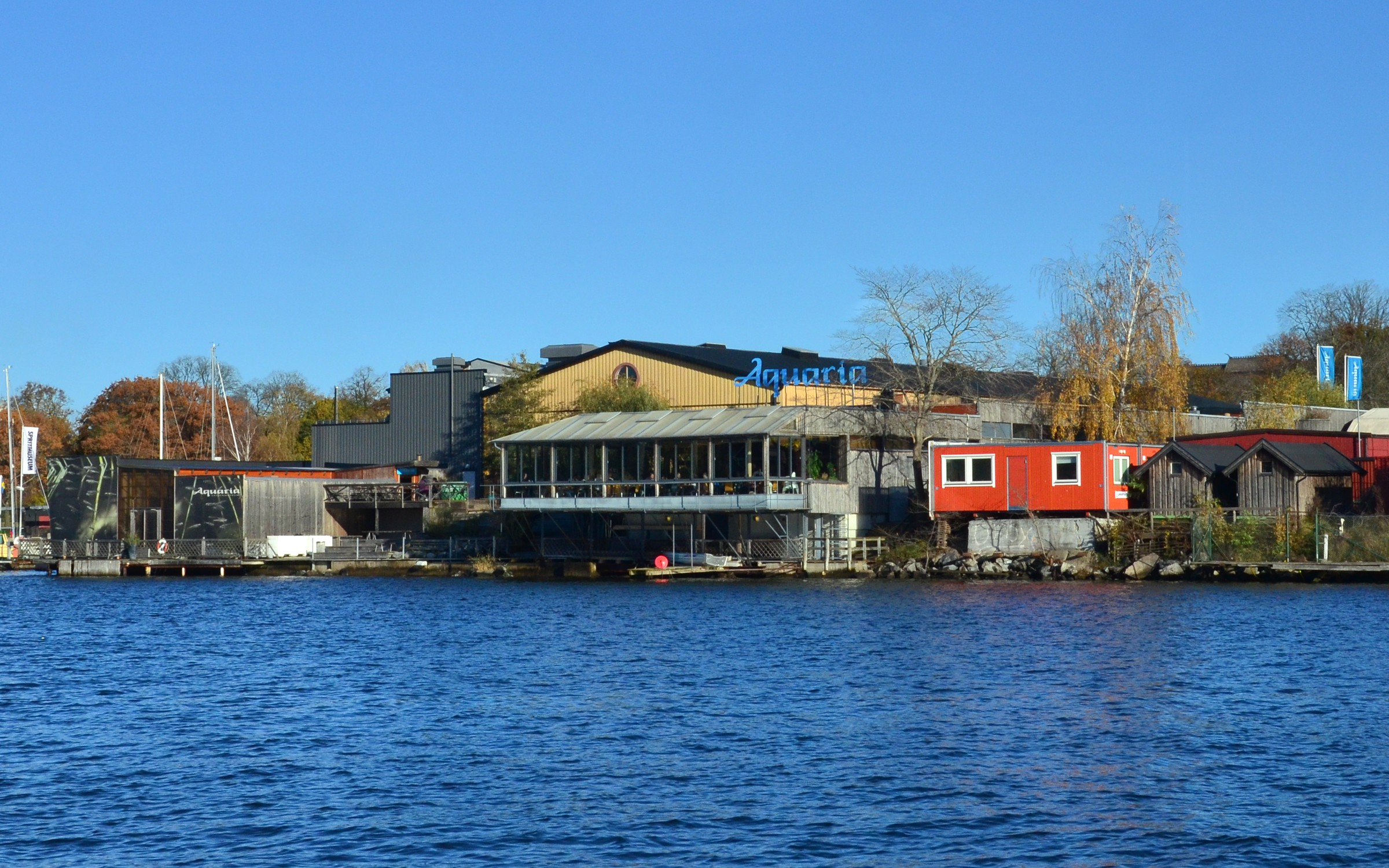 Aquaria water museum in Stockholm seen from the seaside.